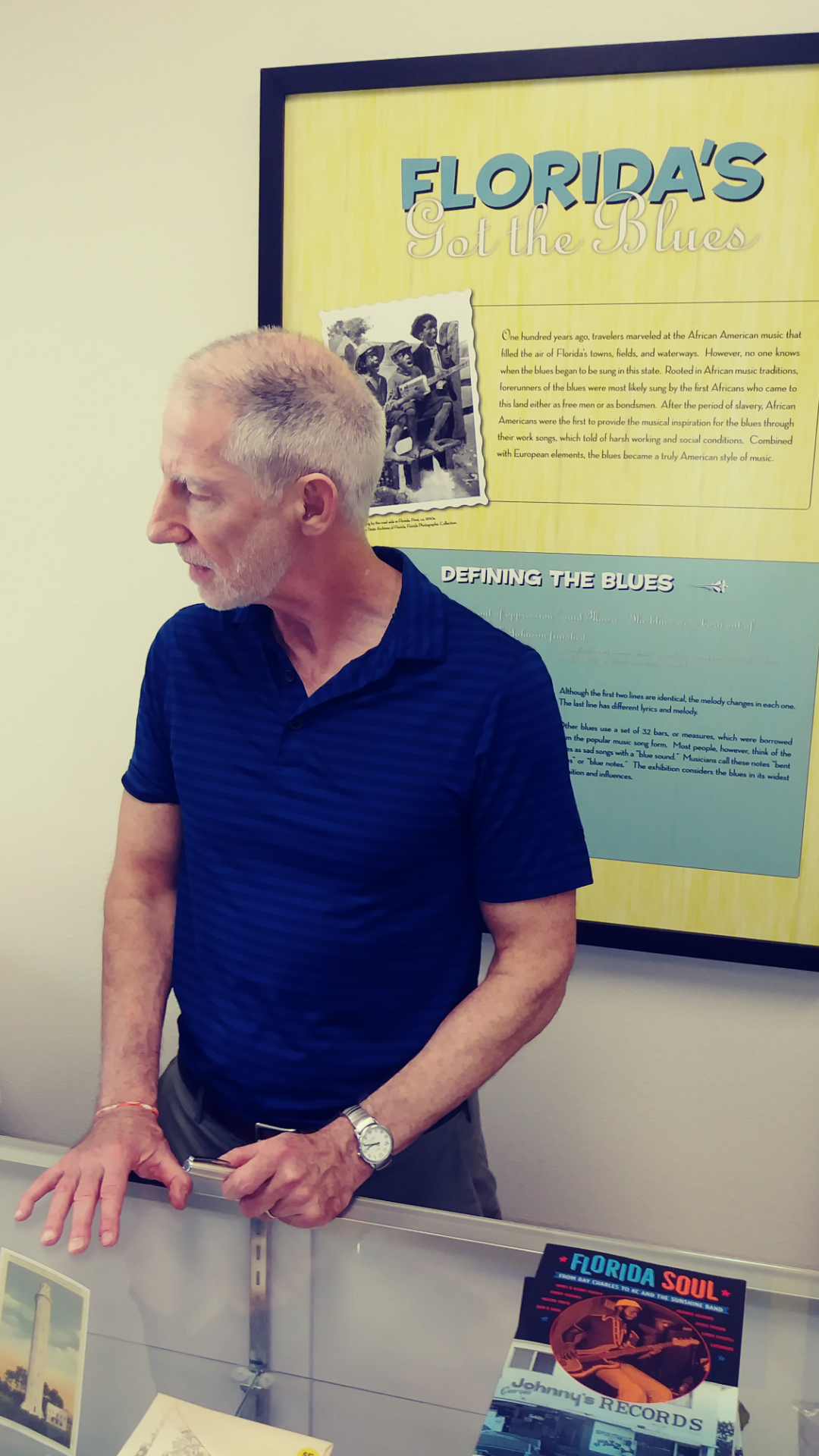 John Capouya at a presention of his book Florida Soul about Florida Blues musicians and history at the Sulphur Springs History and Heritage Museum February 24, 2019